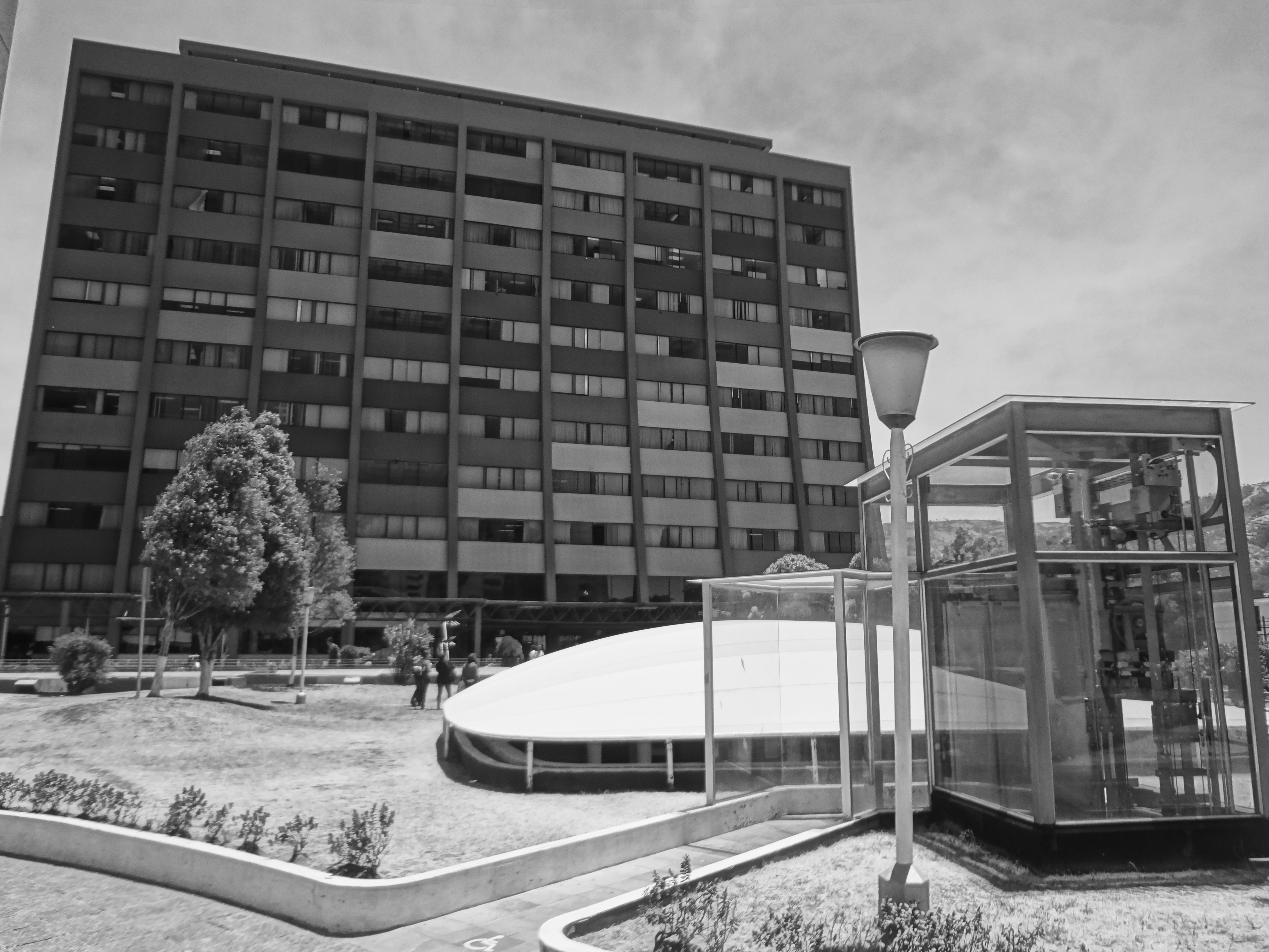 Catholica, Ecuador PUCE - Quito Photographed by David Adam Kess